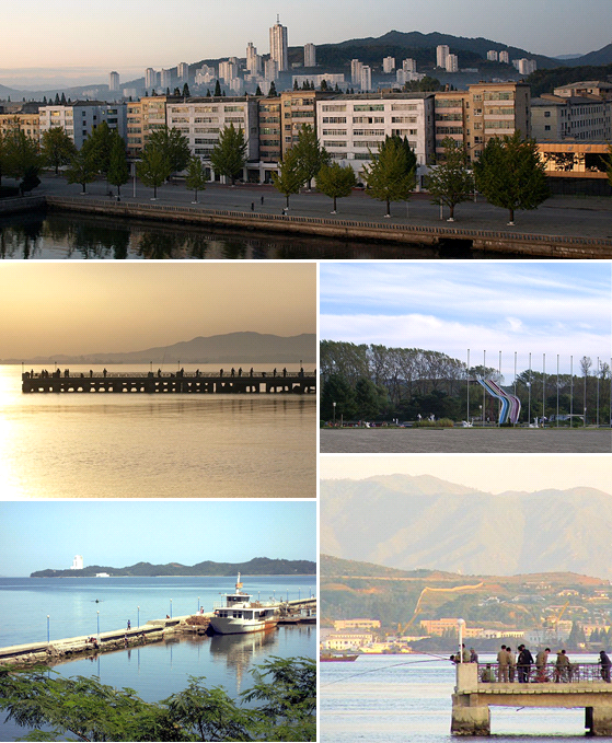 Montage of Wonsan City